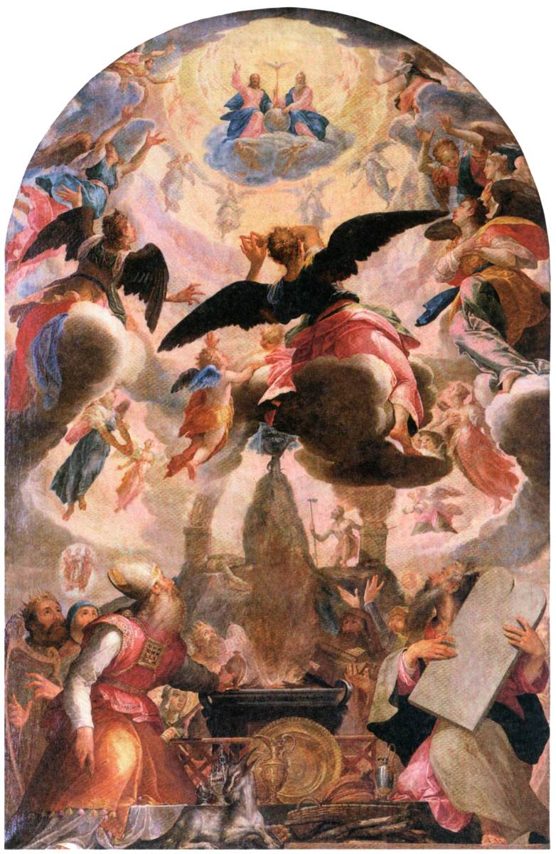 Antonio Maria Viani Offering of the Old Testament 1588-89 Oil on panel St. Michael's, Munich